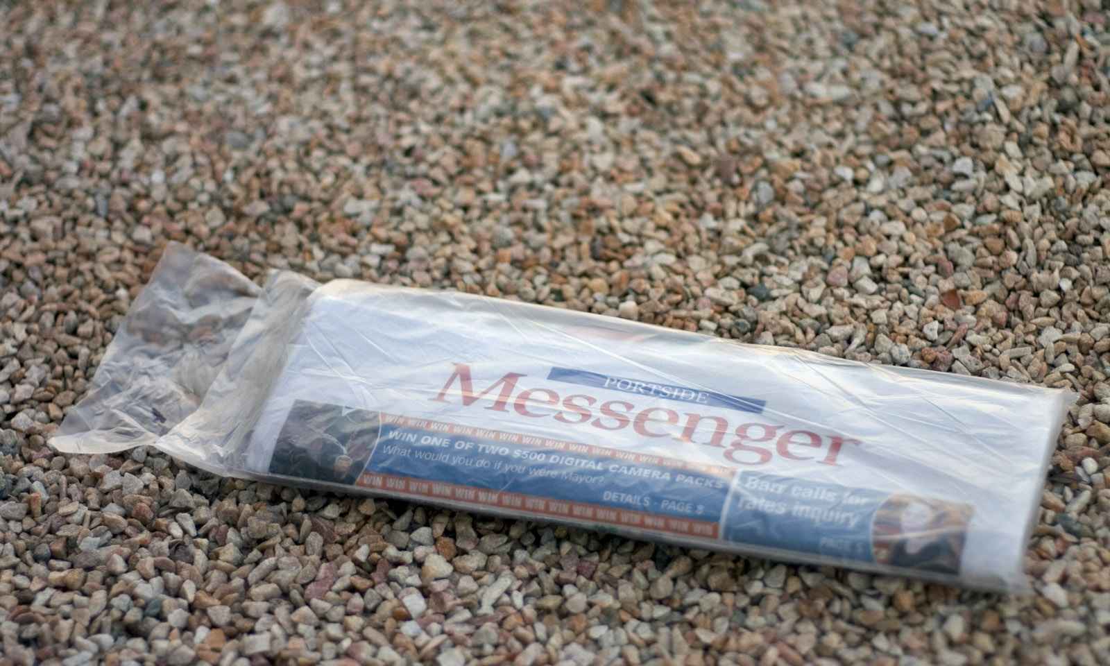 The Portside Messenger in the traditional plastic bag.